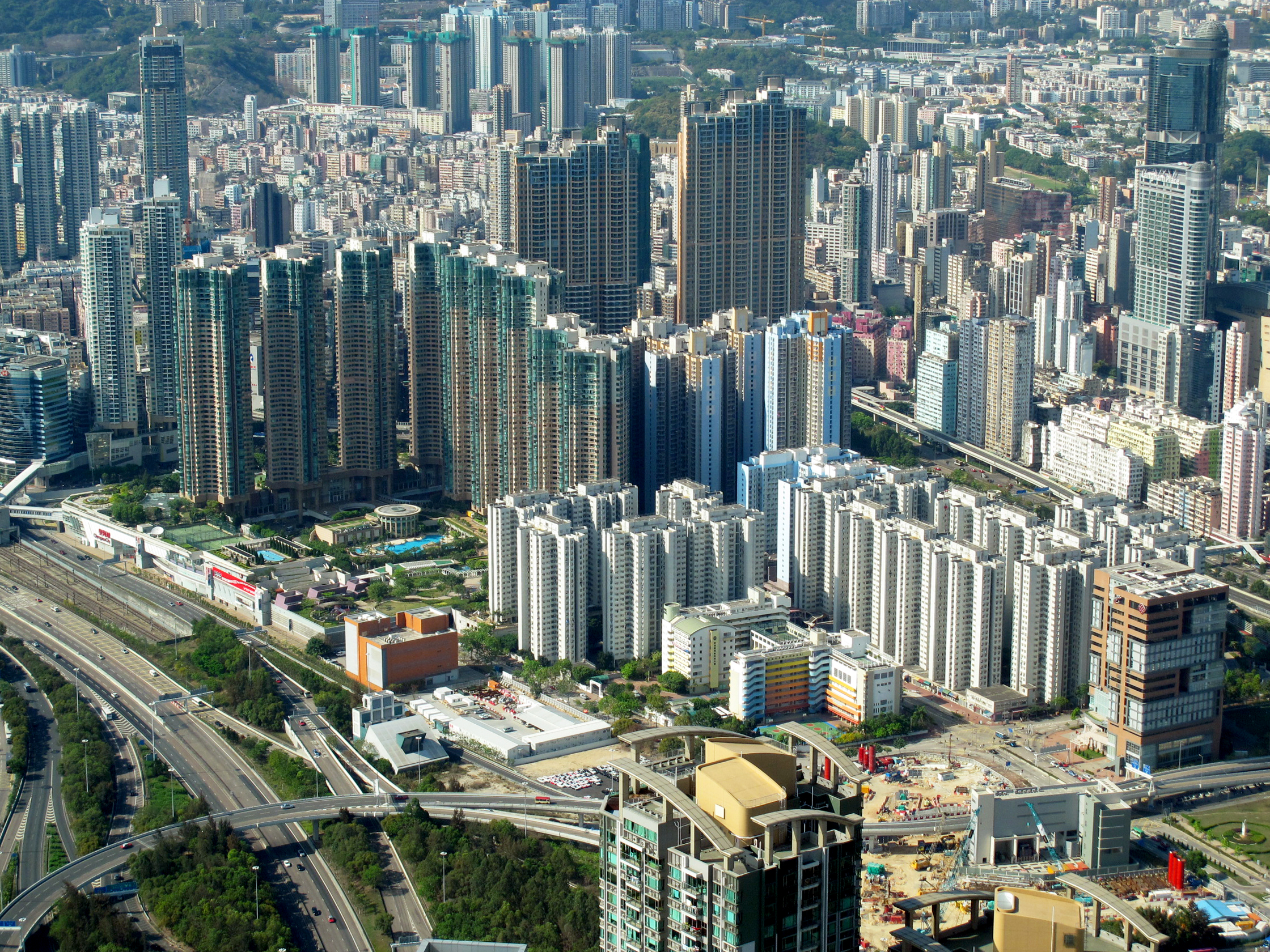 West_Kowloon Olympic Station Buildings